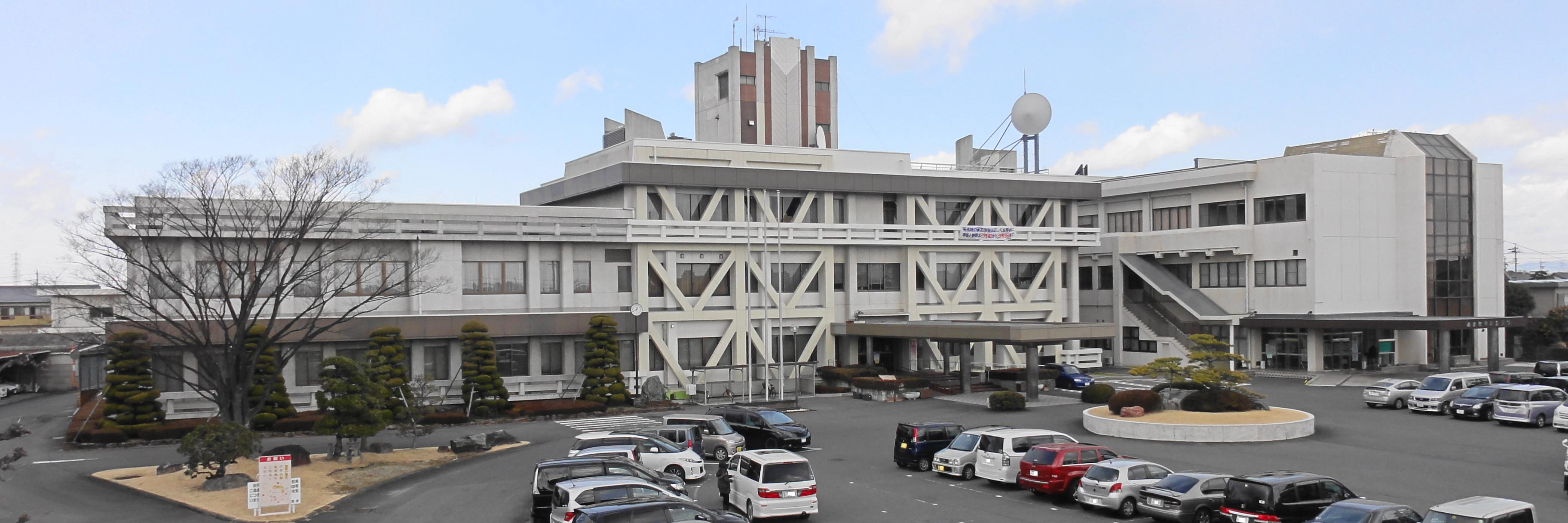 Ama city office,Aichi prefecture,Japan